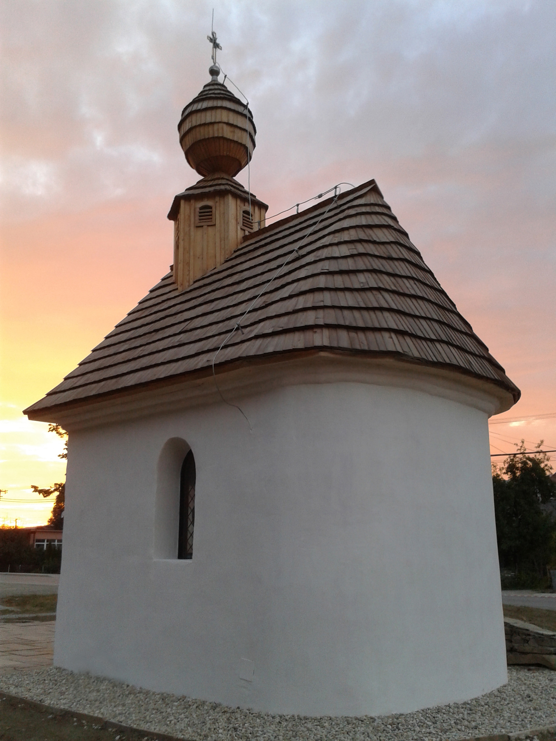 Chapel of St. Lazarus of Bethany, Nová Bystrica, Slovakia